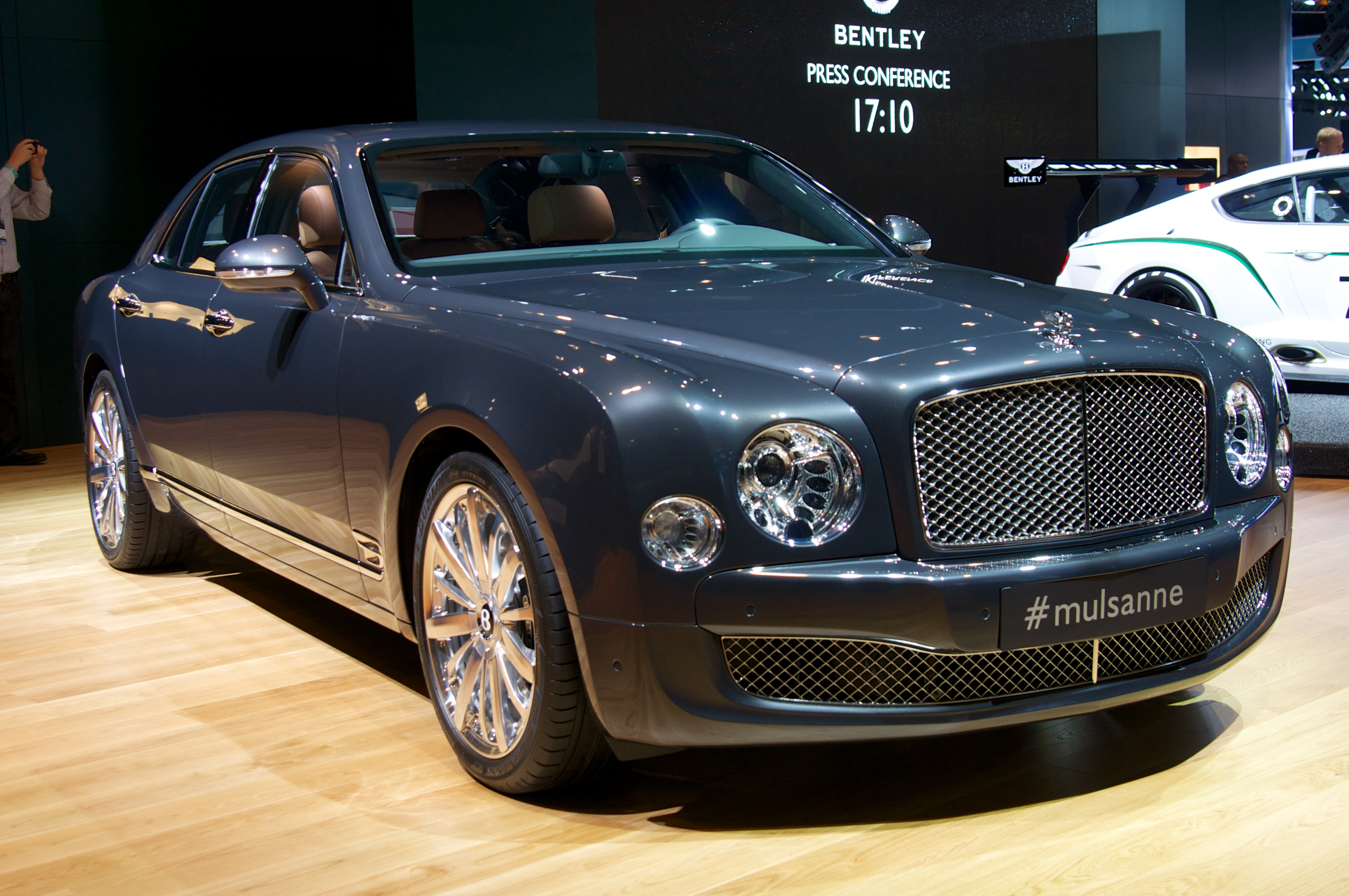 Seen at the 2012 Los Angeles Auto Show. Press day - Wednesday, November 28th. If you use one of my photos, please be so kind as to attribute me and link back to the photo's page. THANK YOU!